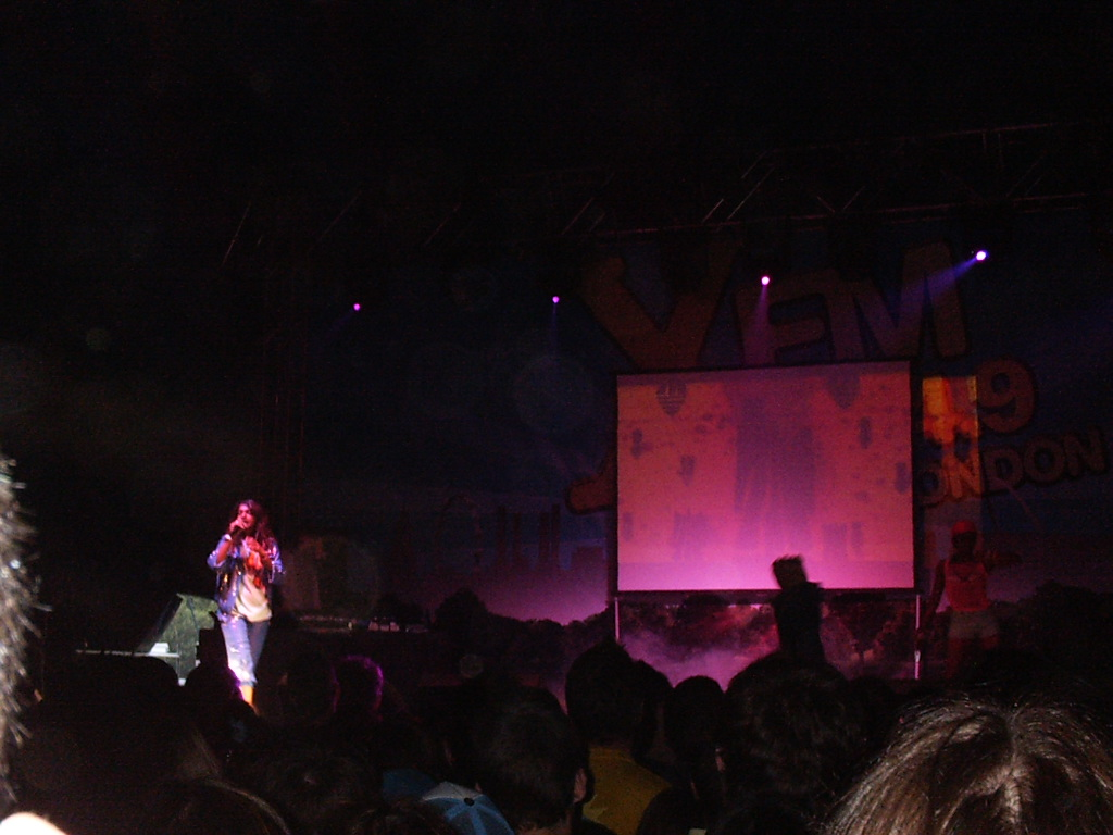 M.I.A. performing on XFM Stage at London's Hyde Park Wireless Festival in 2005